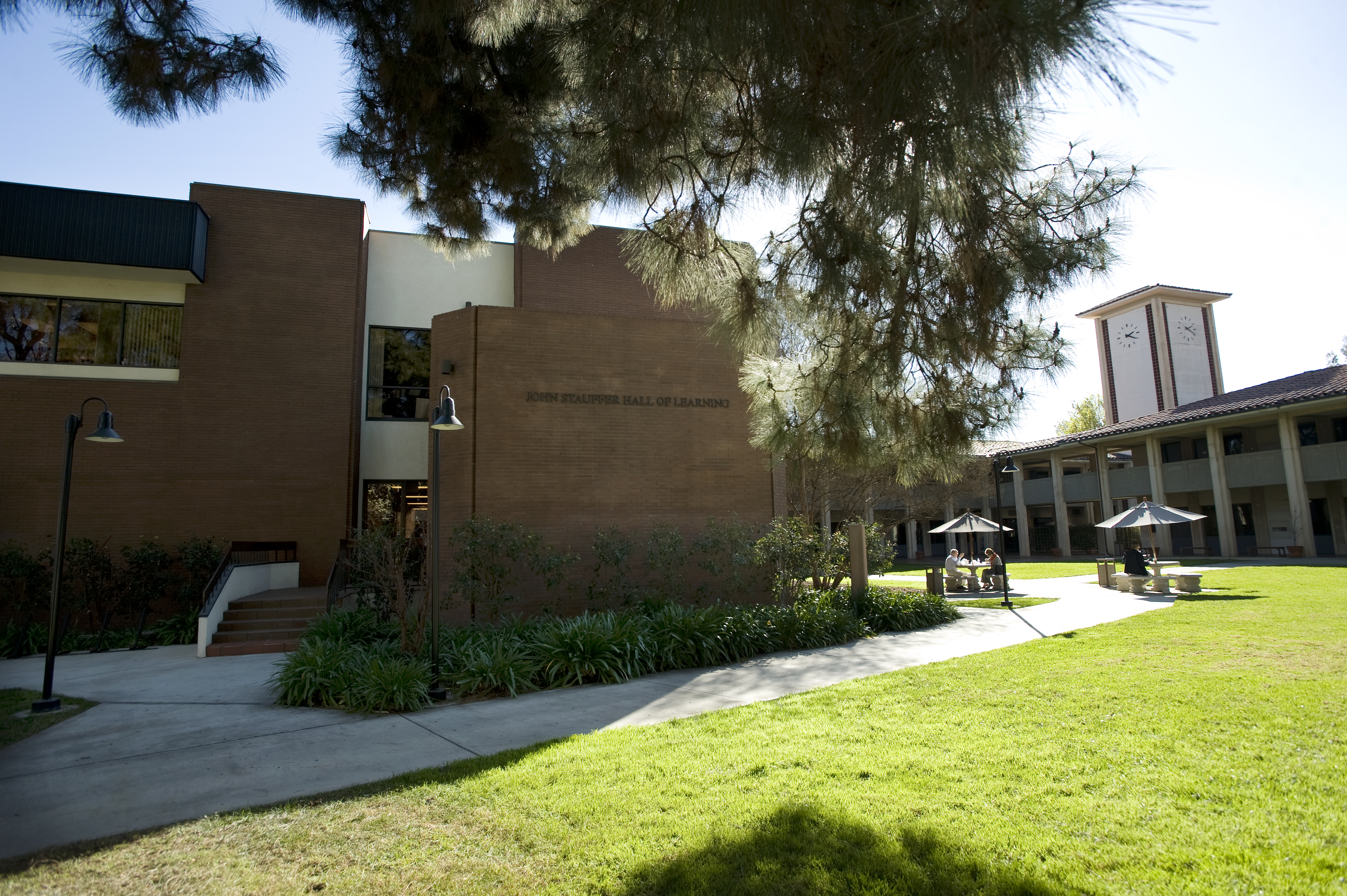 Stauffer Hall